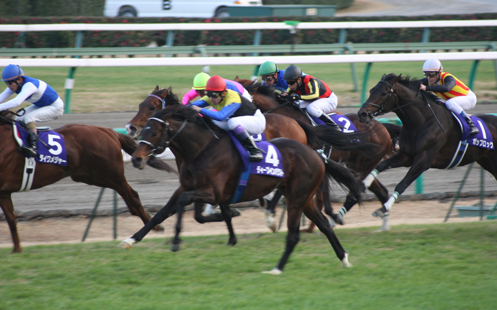 Deep Impact at the 51st Arima Kinen horserace